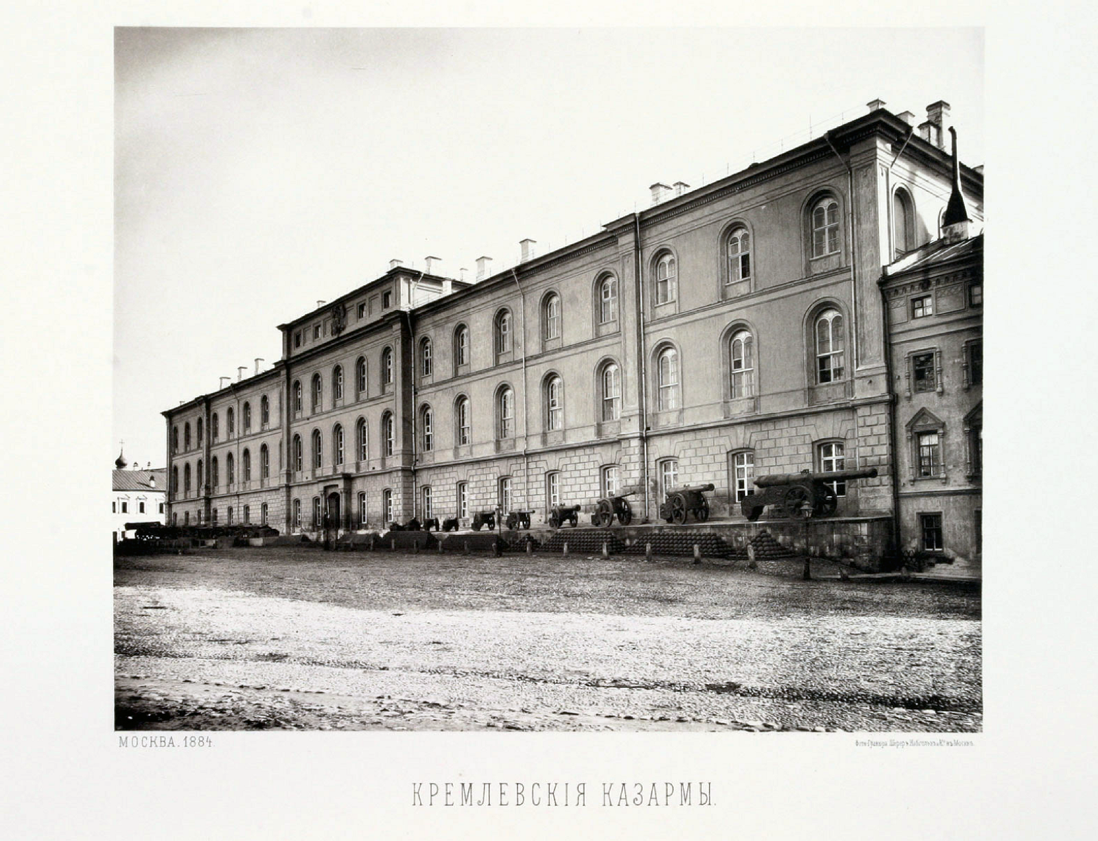 Plate 35: Kremlin barracks (the former Armoury, demolished to make way to the palace of Congresses).